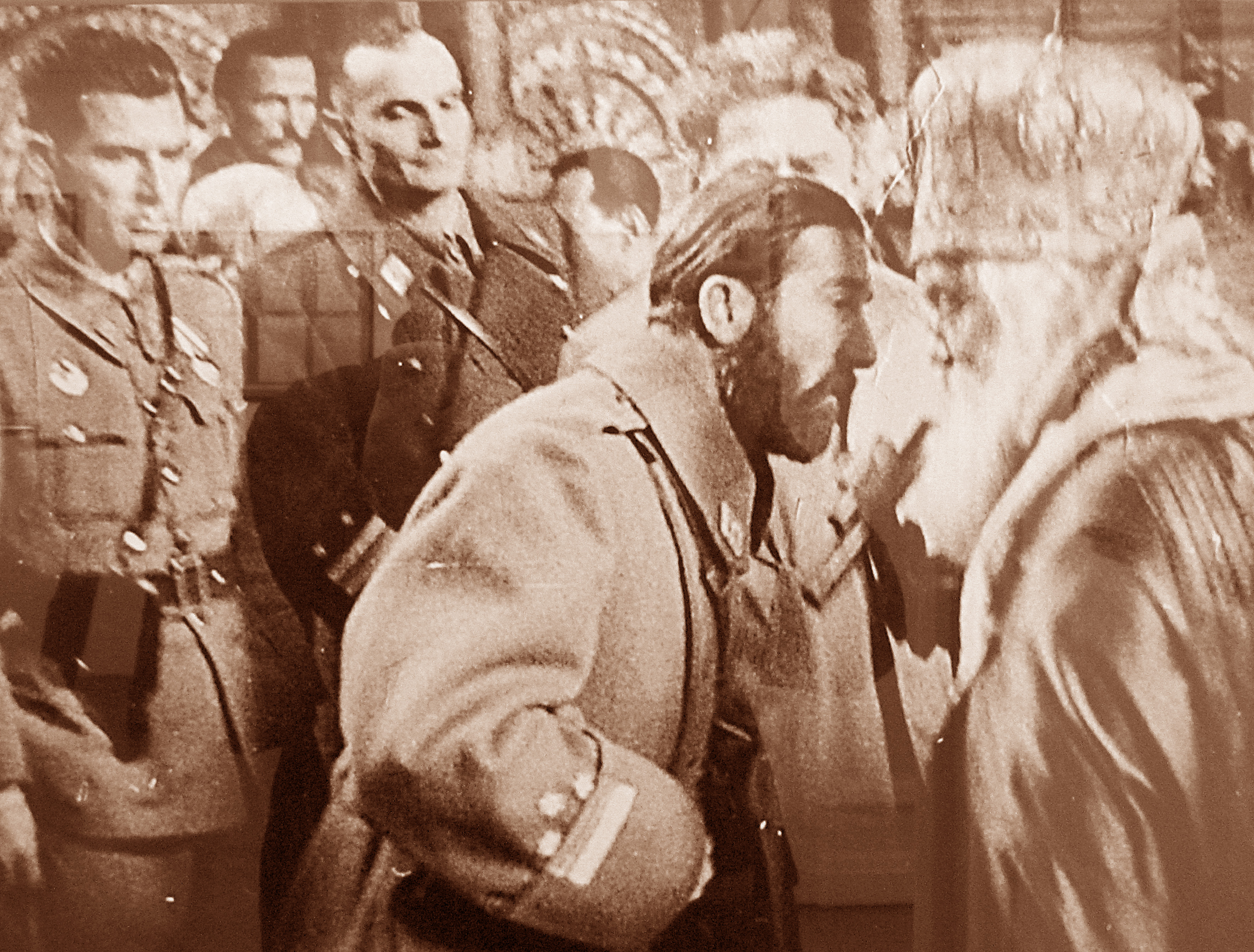 Vladimir Zecevic and Metropolitan bishop Josif in Belgrade, November 1944